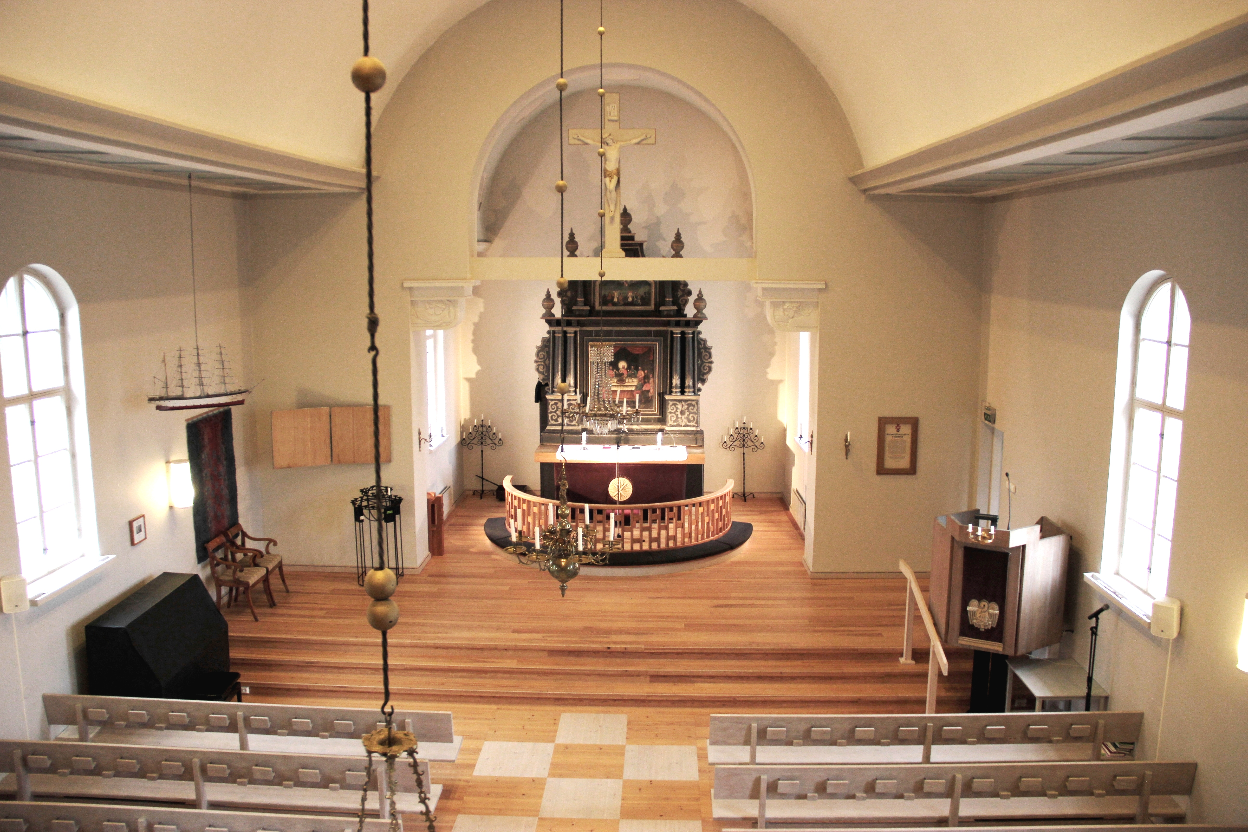 Degerby Church, in Degerby, Ingå, Finland